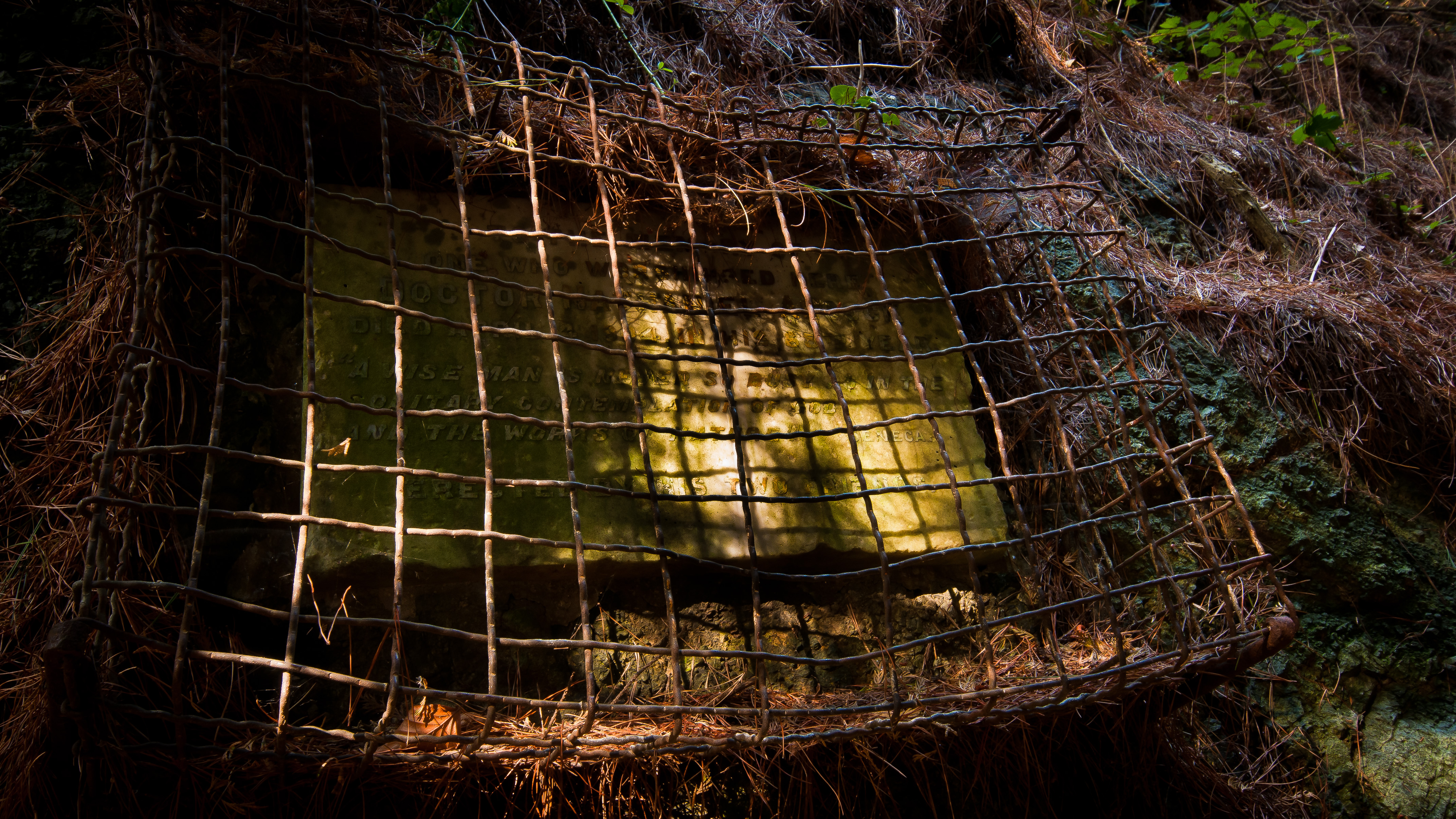 The memorial to Dr. Nathaniel Alcock near the summit of Carrickgollogan, County Dublin, Ireland, erected by his daughters in 1914. The inscription reads, "To the Memory of One who Worshipped Here. Doctor Nathaniel Alcock Died April 4, 1904 in His 85th Year. “A Wise Man is Never so busy as in the Solitary Contemplation of God And the Worship of Nature” Seneca. Erected by his Two Friends."